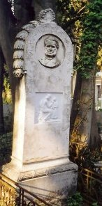 Gravestone of Wilhelm Meyer, Danish physician